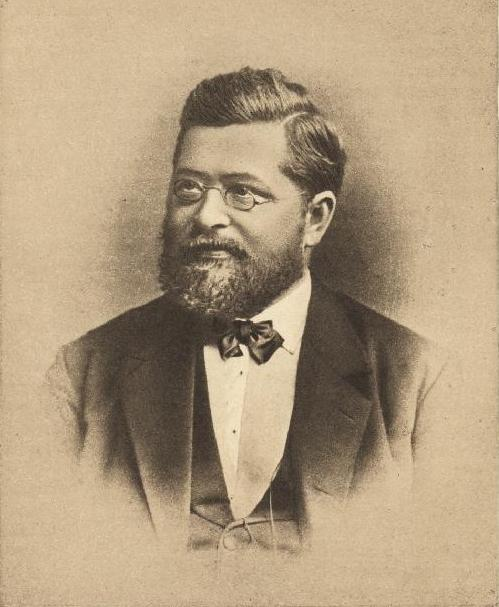 Friedrich Tietjen (1834 – 1895), a German astronomer.